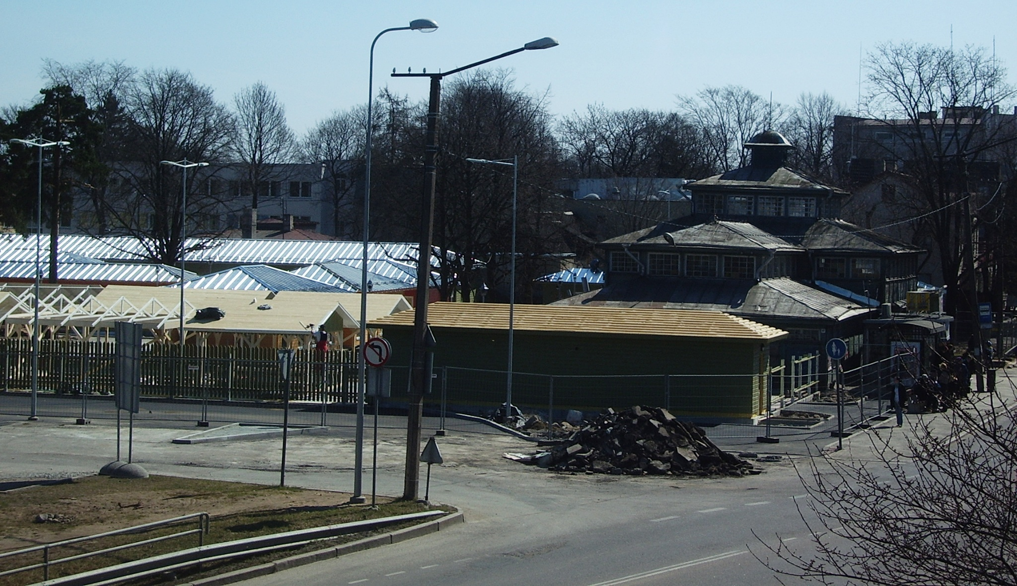 Nõmme market in Tallinn